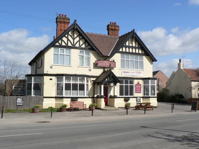 The Junction, Church Fenton On Station Road, close to the railway station